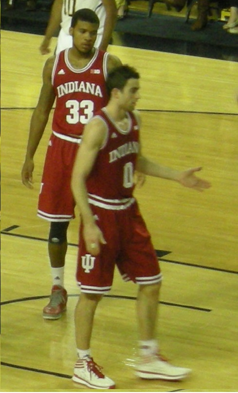 Jeremy Hollowell and Will Sheehey on Indiana